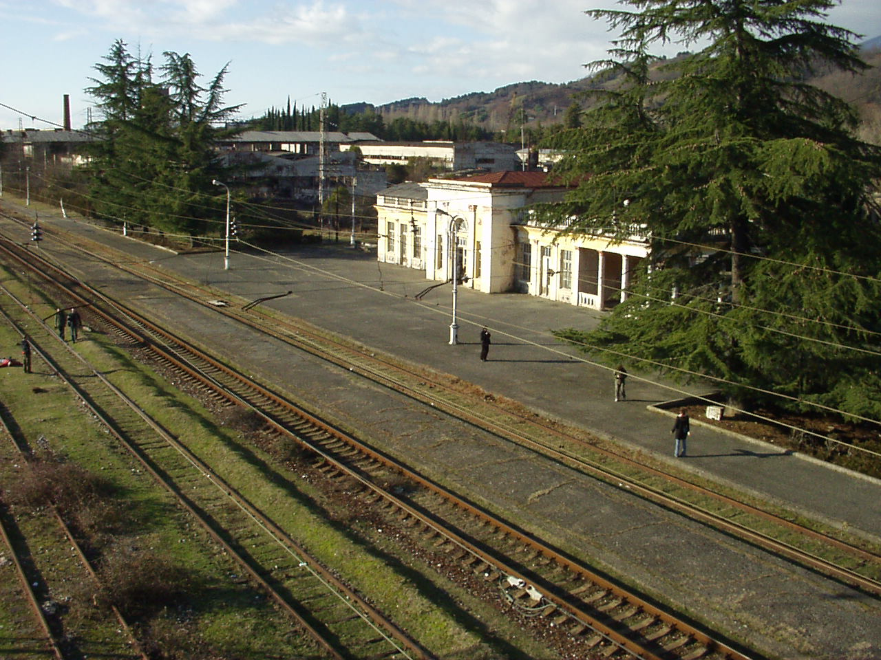 Bzypta (former Bzyb) railway station in Abkhazia, Jan. 2008